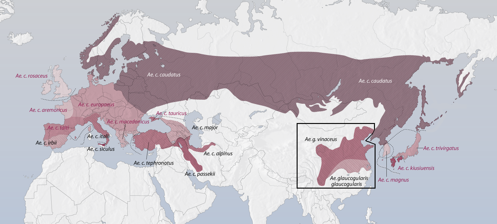 Distribution of subspecies of Long-tailed Tit Aegithalos caudatus and Silver-throated Tit Aegithalos glaucogularis